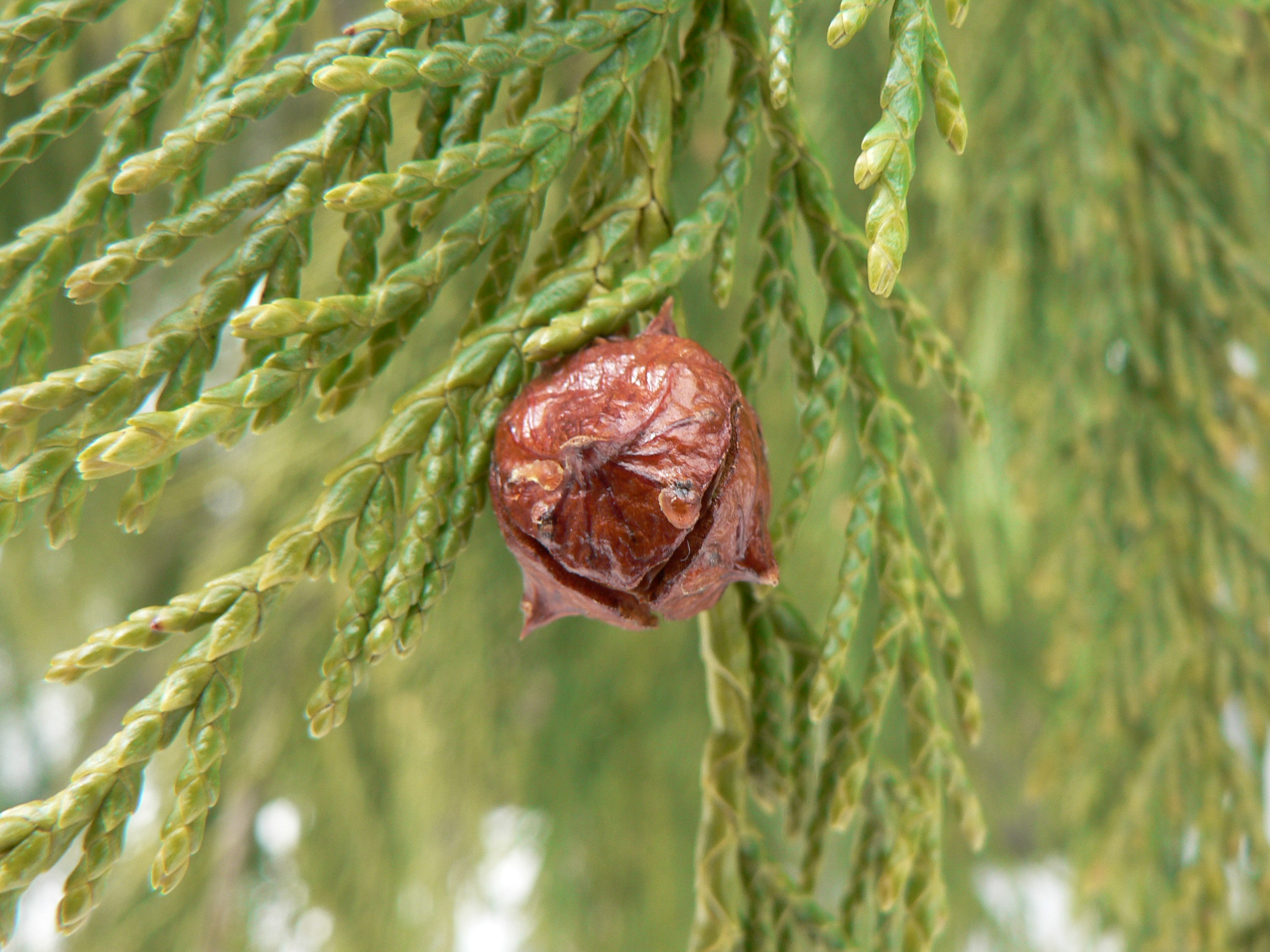 Nootka Cypress, Yellow Cypress, Alaska Cypress; female cone